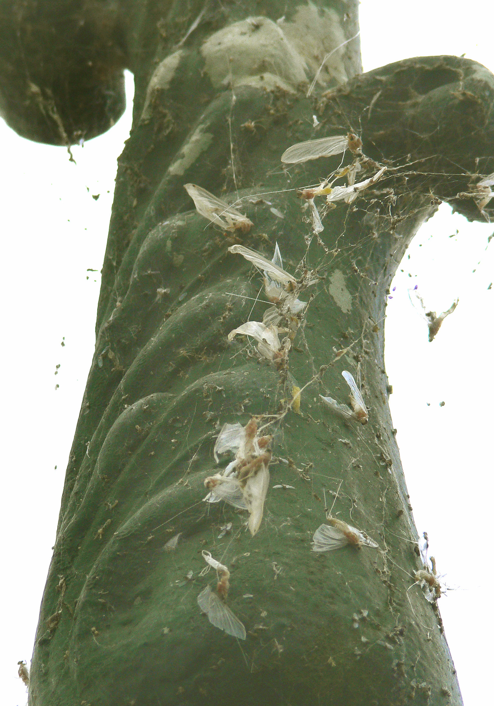 Briare canal bridge over the Loire (France). Basement of light = also example of impact of "light pollution" on the Loire River (which is often described as the last wild river in France). More lights are close to the center of the Loire (on the bridge that crosses it at right angles), the more lights attract insects at night just emerging from the water (rem: Some of these insects (Trichoptera sp., Plecoptera sp. including Ephemeroptera) are regarded as "bioindicators" indicating good water quality, and are rapidly declining in France since the early twentieth century). On this bridge, the further away to the right or left banks of the river Loire, under the lights attract insects. The amount of cobwebs (Spider web), the number and size of spiders and the number of bodies of insects are clues to the amount of trapped insects and, since every morning wasps come - sometimes hundreds - "steal" the spiders on their web, part of dead insects they were killed and stored in a sheath of silk in the night. Because of the heat lamps and their intensity, these spiders have an abnormally prolyxe food, and they are unusually numerous. This phenomenon seems to be what ecologists call a "green shaft". Bats and fishes could also be perturbed by this light.